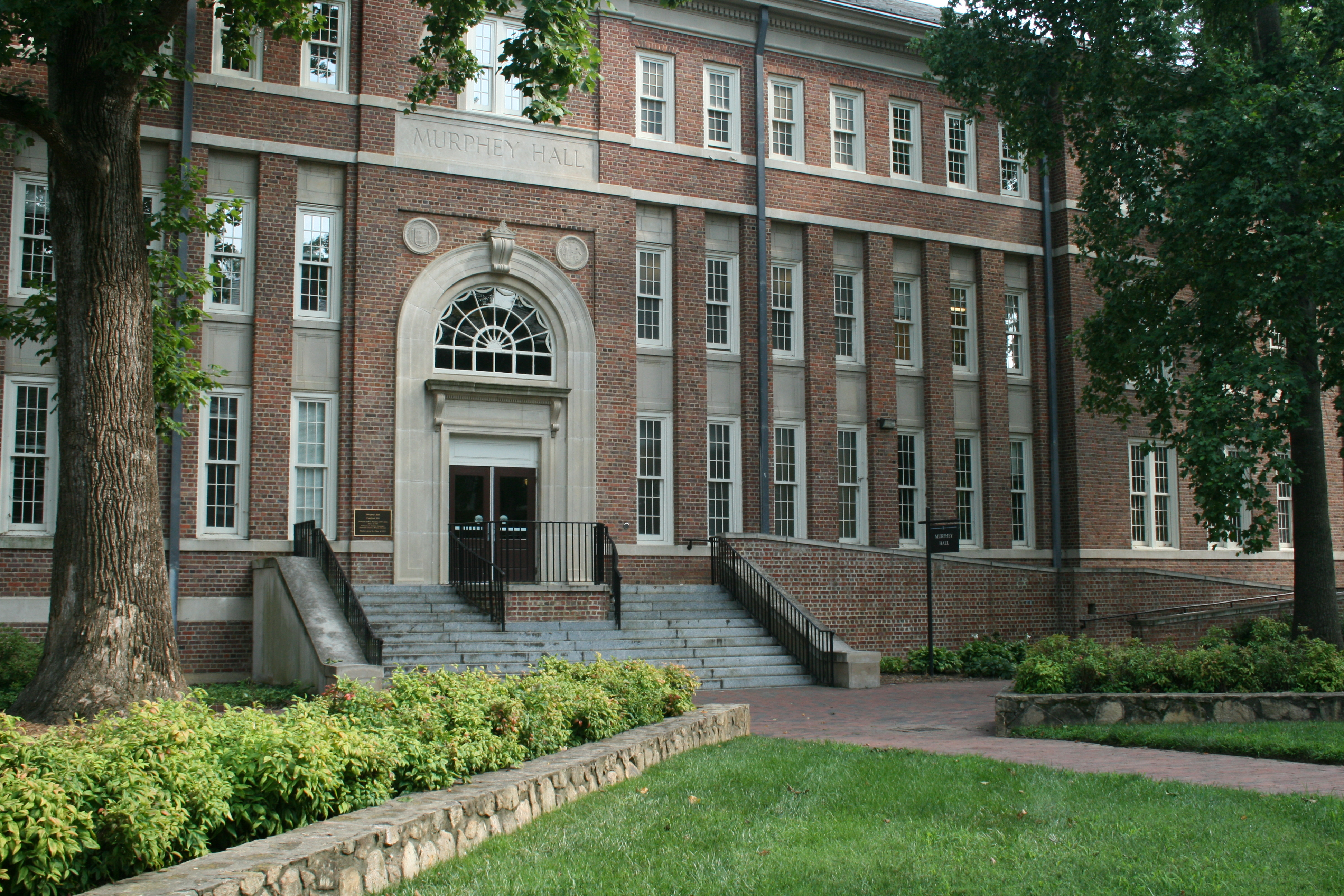 Murphey Hall at the University of North Carolina at Chapel Hill.